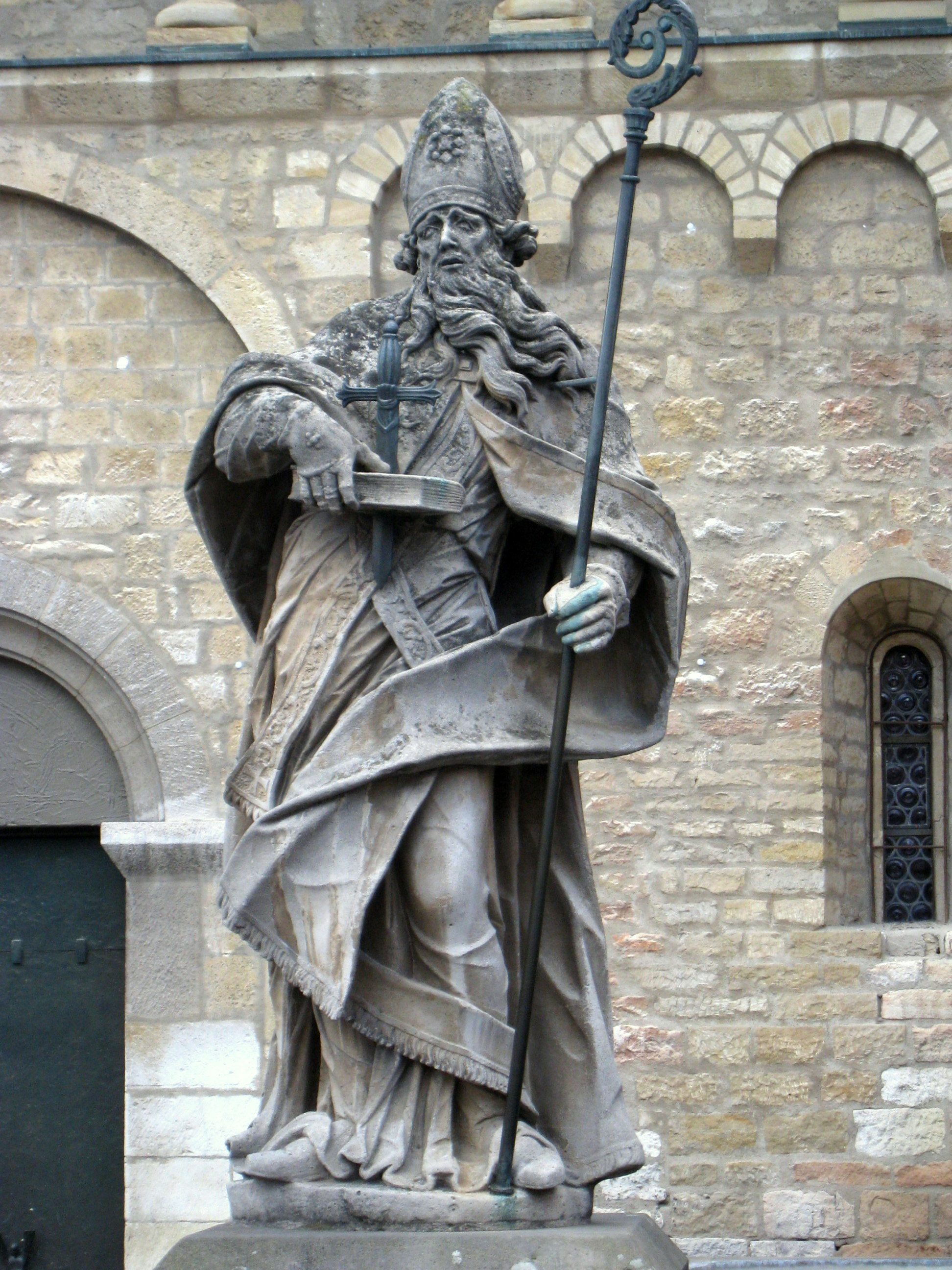 Statue of Saint Boniface, first Archbishop of Mainz in the market place outside Mainz Cathedral.